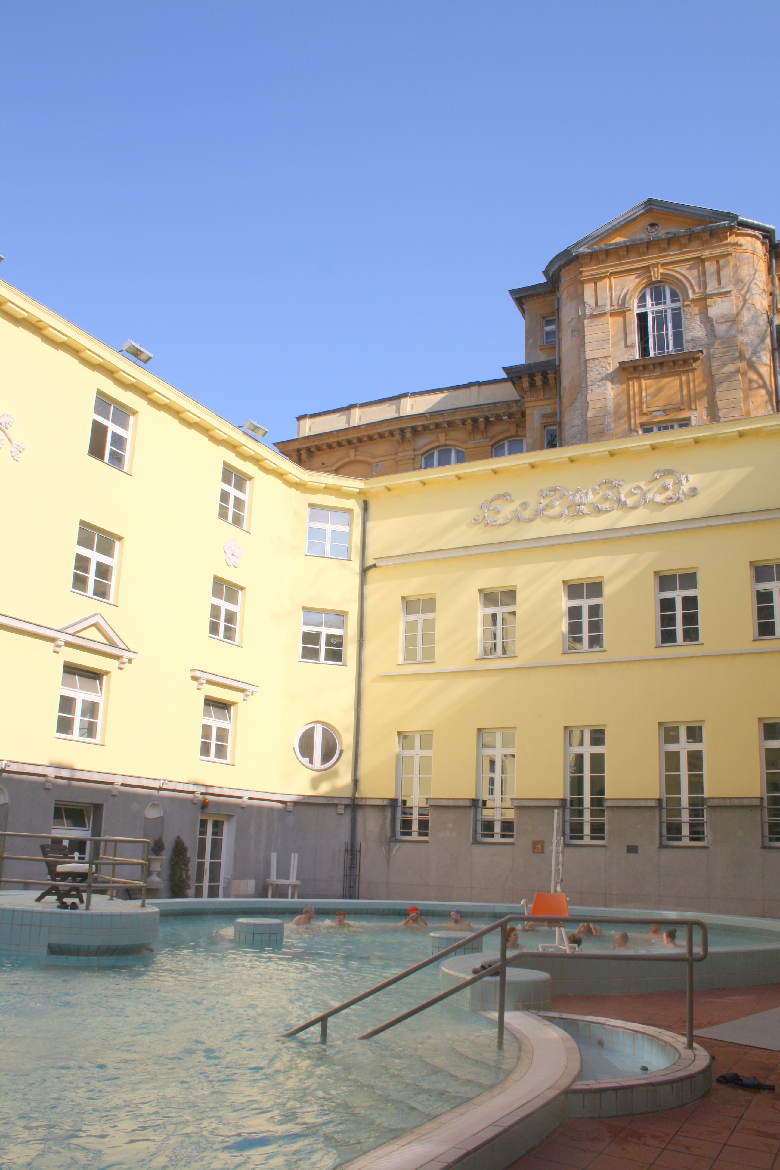 Lukács thermal baths